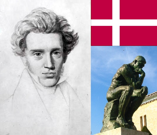 Image of the Kierkegaard area in Commons